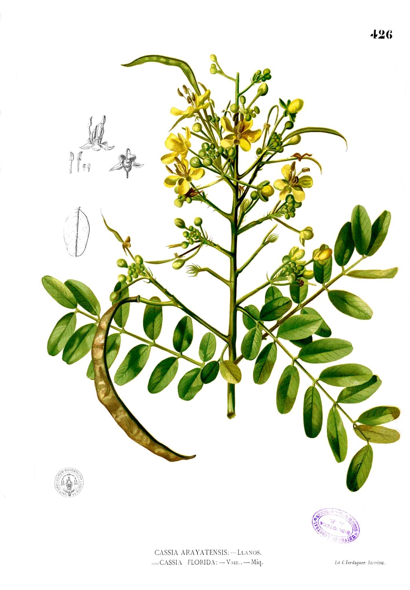 Plate from book